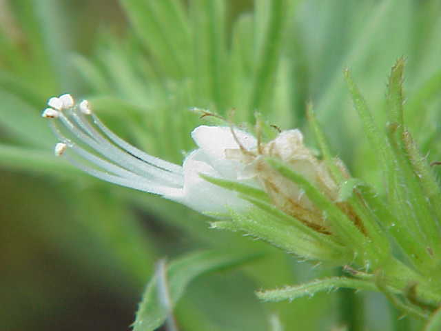 Species: Echium aculeatum Family: Boraginaceae Image No. 2